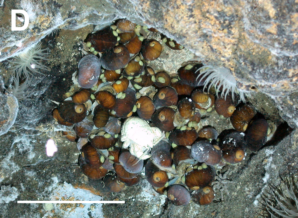 Gigantopelta chessoia (mentioned as Peltospiroidea n. sp.) at East Scotia Ridge E2 hydrothermal vent surrounding single Kiwa n. sp. and partially covered by limpet Lepetodrilus n. sp. The pycnogonid cf. Sericosura is at the bottom right of the image (Dive 132, 2,608 m depth). Scale bar is 10 cm for foreground.